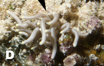 Photo of Phyllodesmium briareum (Bergh, 1896) (arrow, Dexiarchia, Aeolidoidea) from the Indo Pacific.